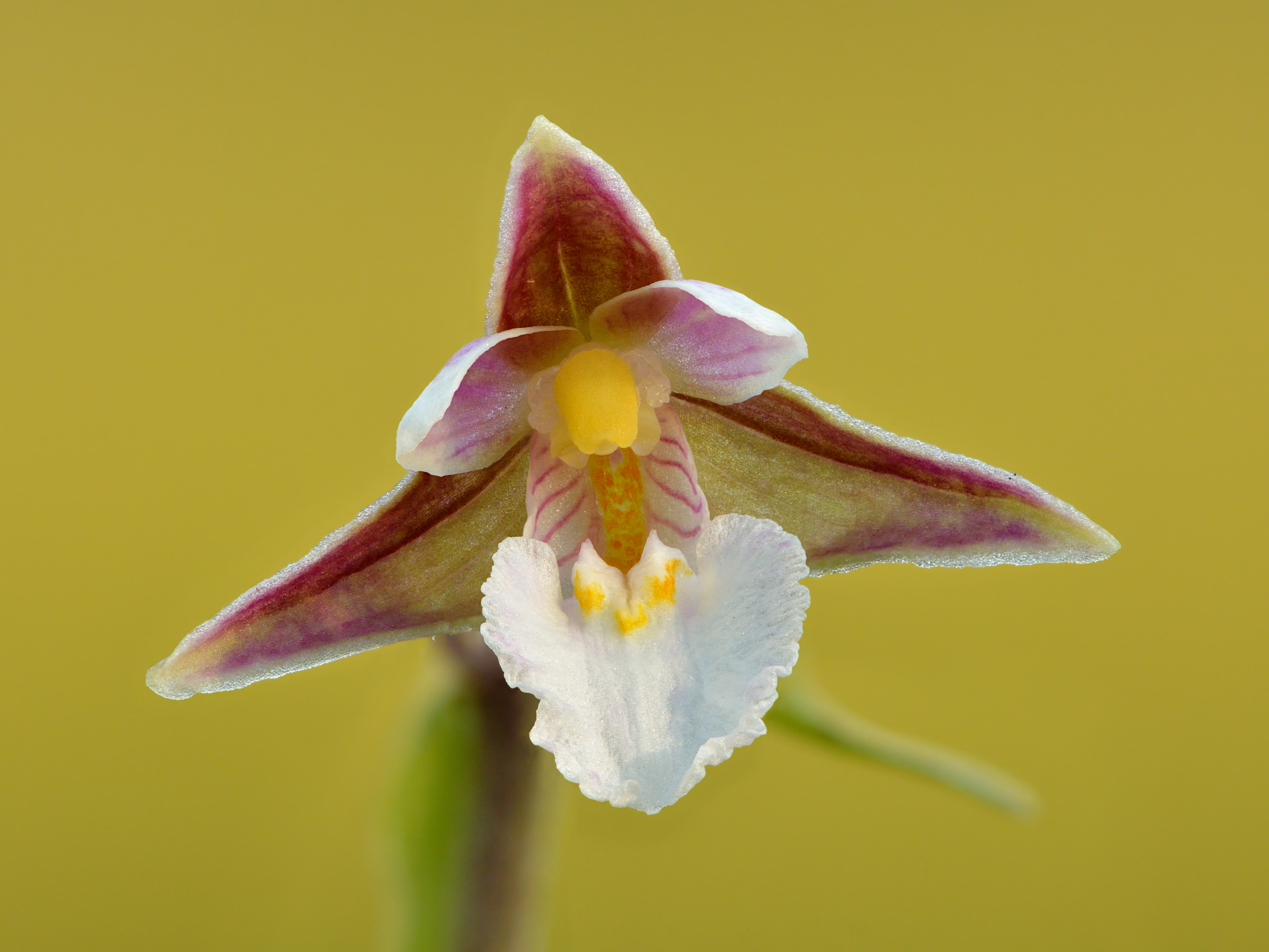 Marsh helleborine. Flower size (width × height) ca 18×16 mm